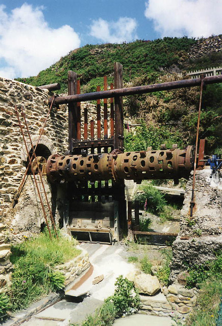 St Agnes: Blue Hills Tin Streams. Water-powered Cornish Stamps used for dressing tin, on a site which is run by Mark Wills. He has a web site too